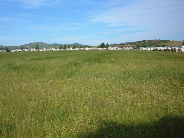 Pen-y-Berth caravan park. On the site of the former RAF Penrhos airbase this is now a caravan site, 9-hole golf course and farmland.